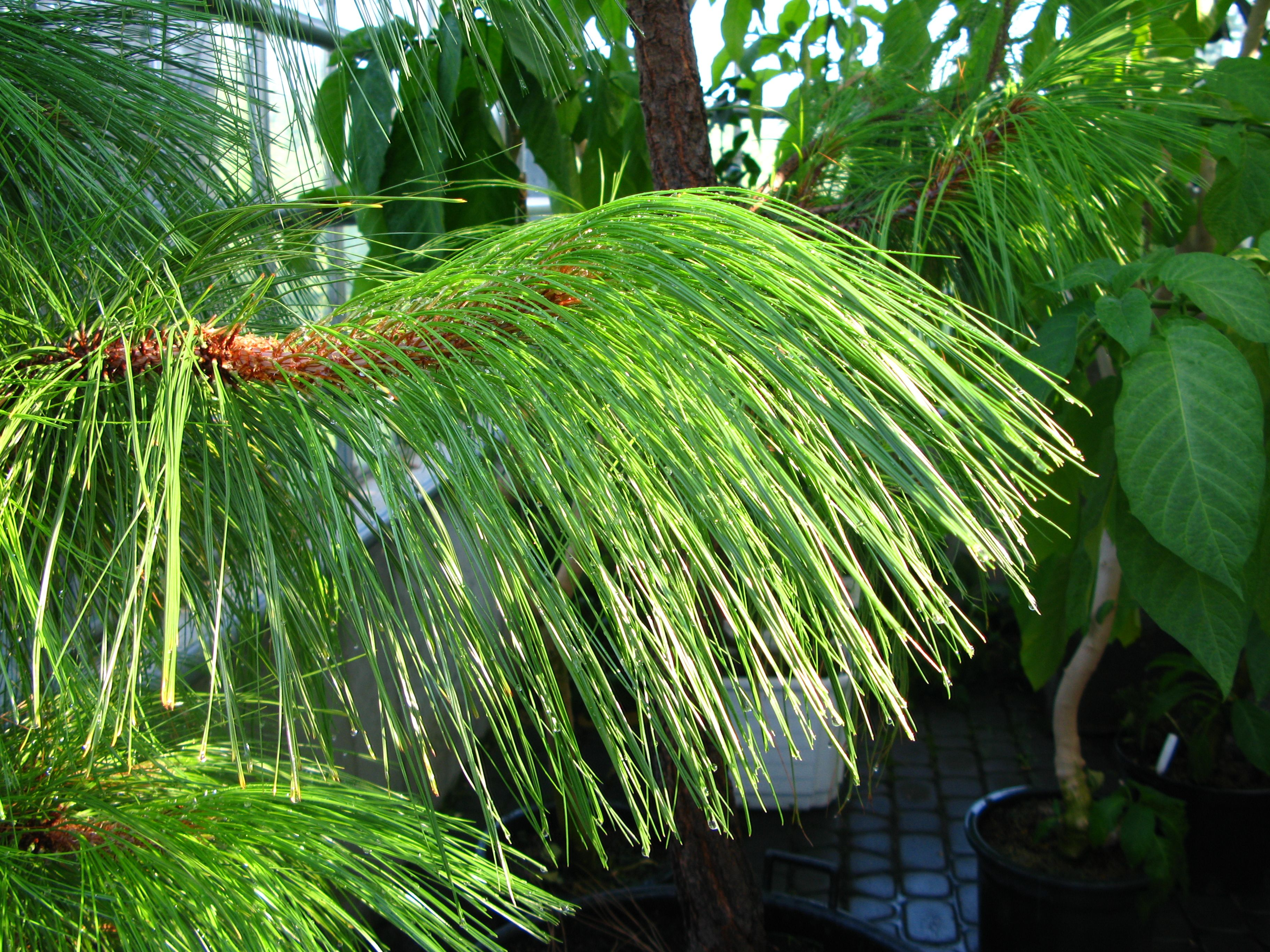 Pinus montezumae shoots (under glass) in PAN Botanical Garden in Warsaw